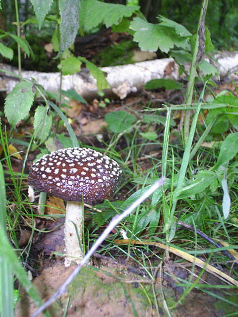 Amanita Pantherina / Moscow